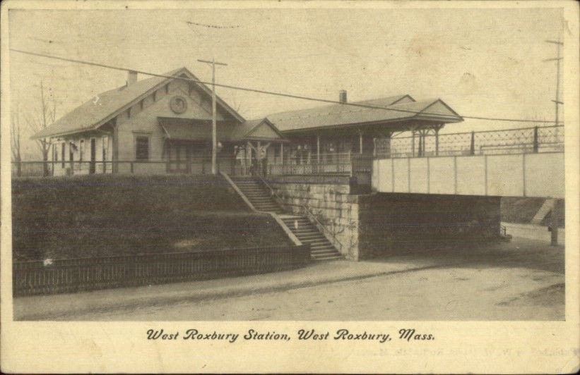 Early divided back postcard of West Roxbury station